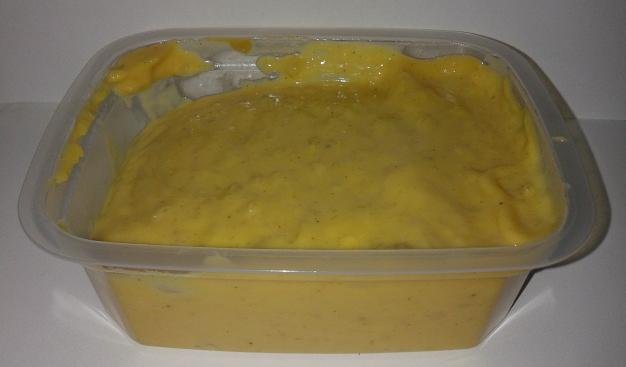 A cup of joppiesaus